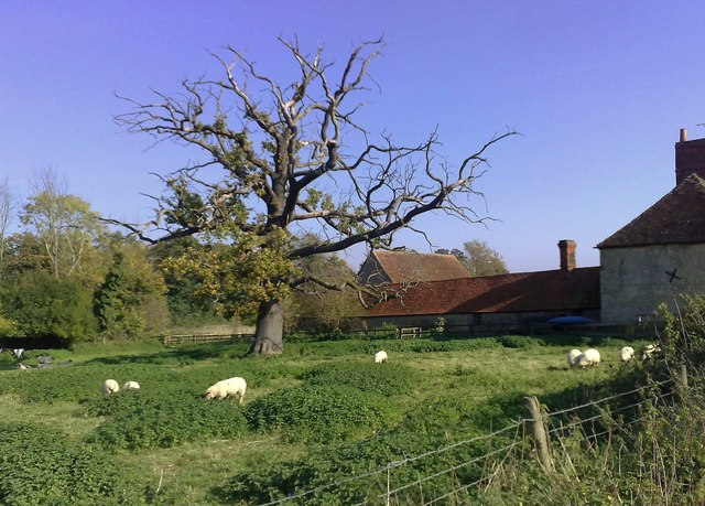 Poorly Oak Tree An elderly oak, which has seen better days, at Manor Farm, Lillingstone Dayrell.